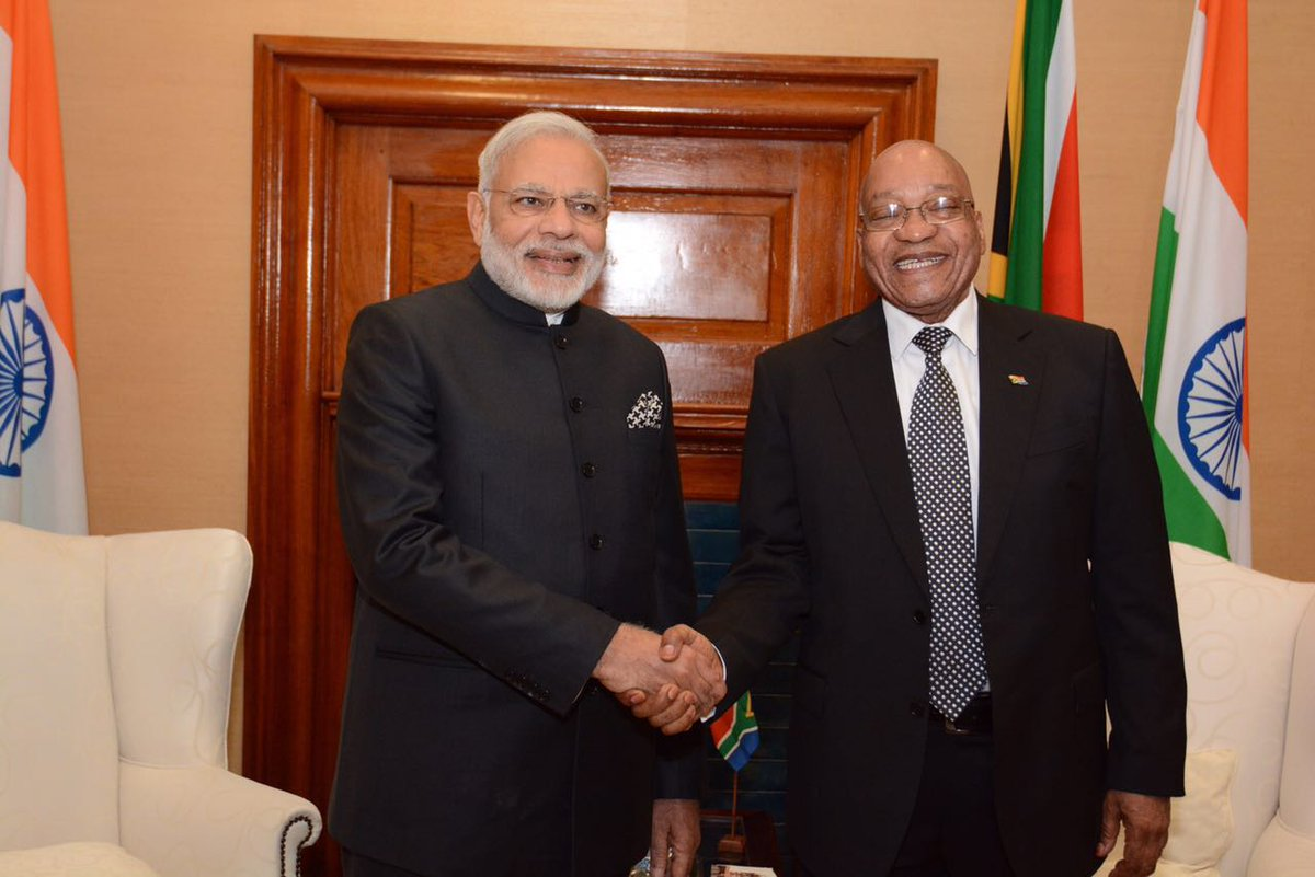 Prime Minister Narendra Modi and South Africa President Jacob Zuma in South Africa